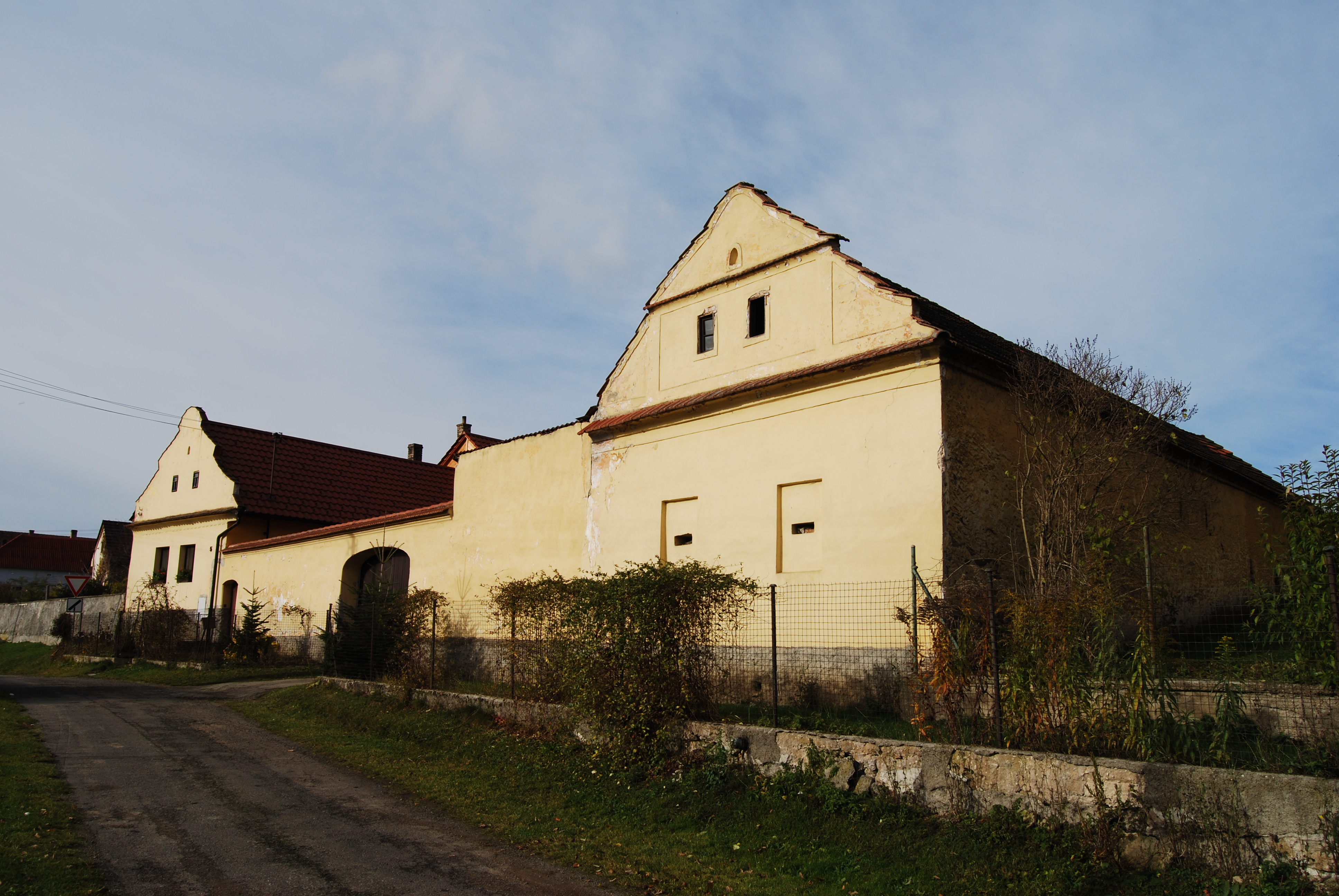 Březnice village in Tábor District, Czech Republic.